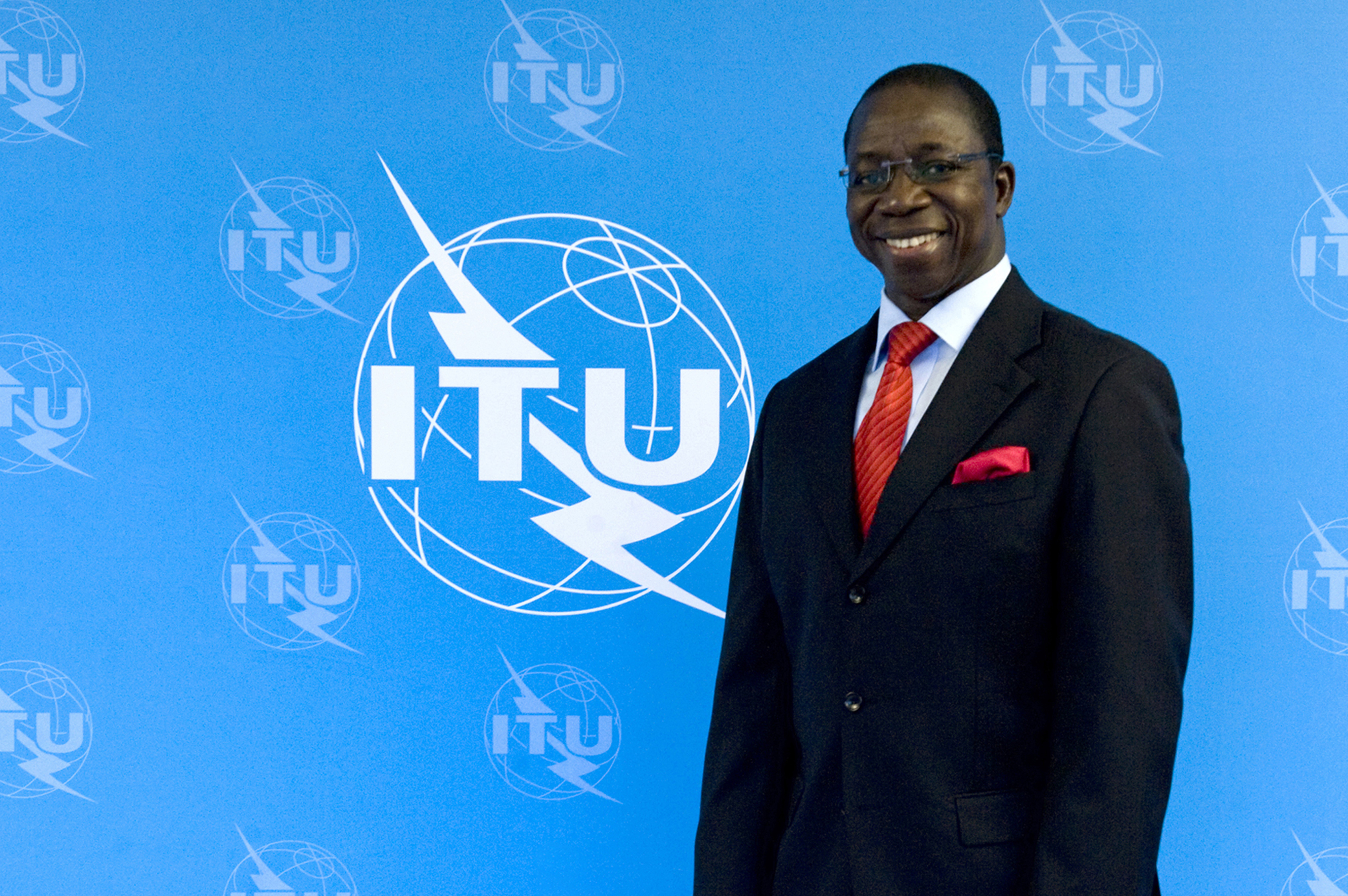 Mr Brahima Sanou, Director of the ITU Telecommunication Development Bureau © ITU / V. Martin